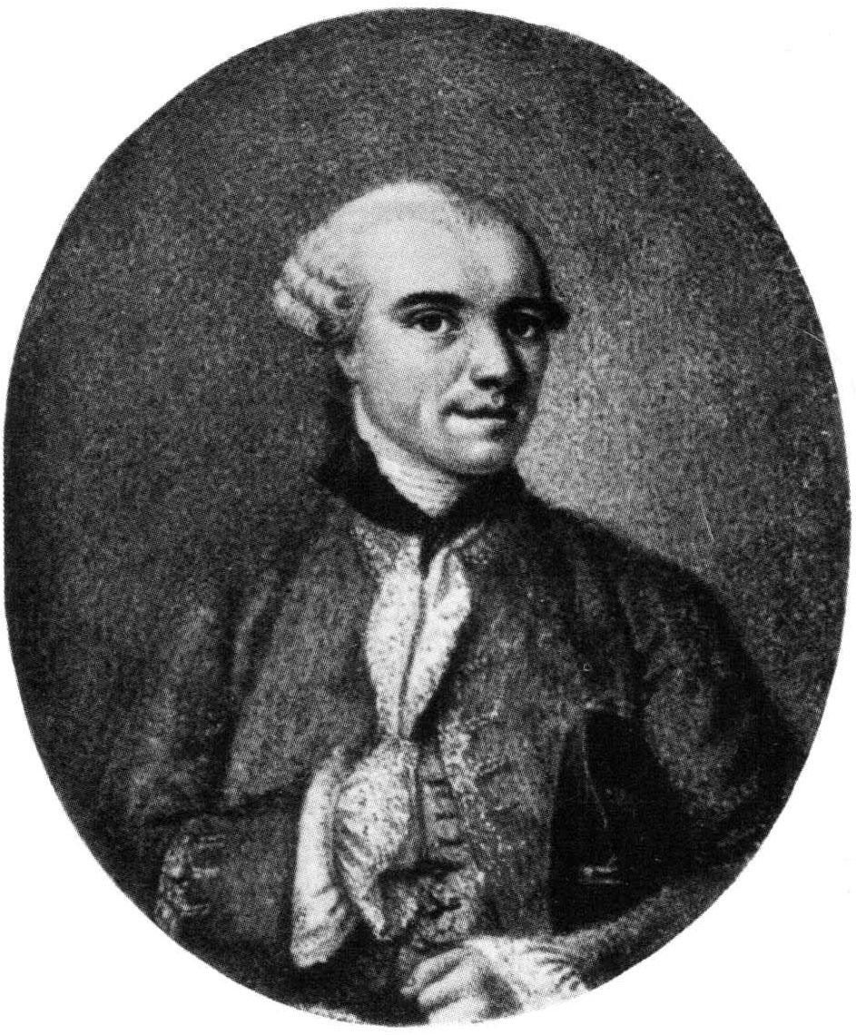 Italian naturalist Cosimo Alessandro Collini (1727-1806).